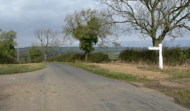 Lane to Braunston-in-Rutland At the junction for Leighfield Lodge.